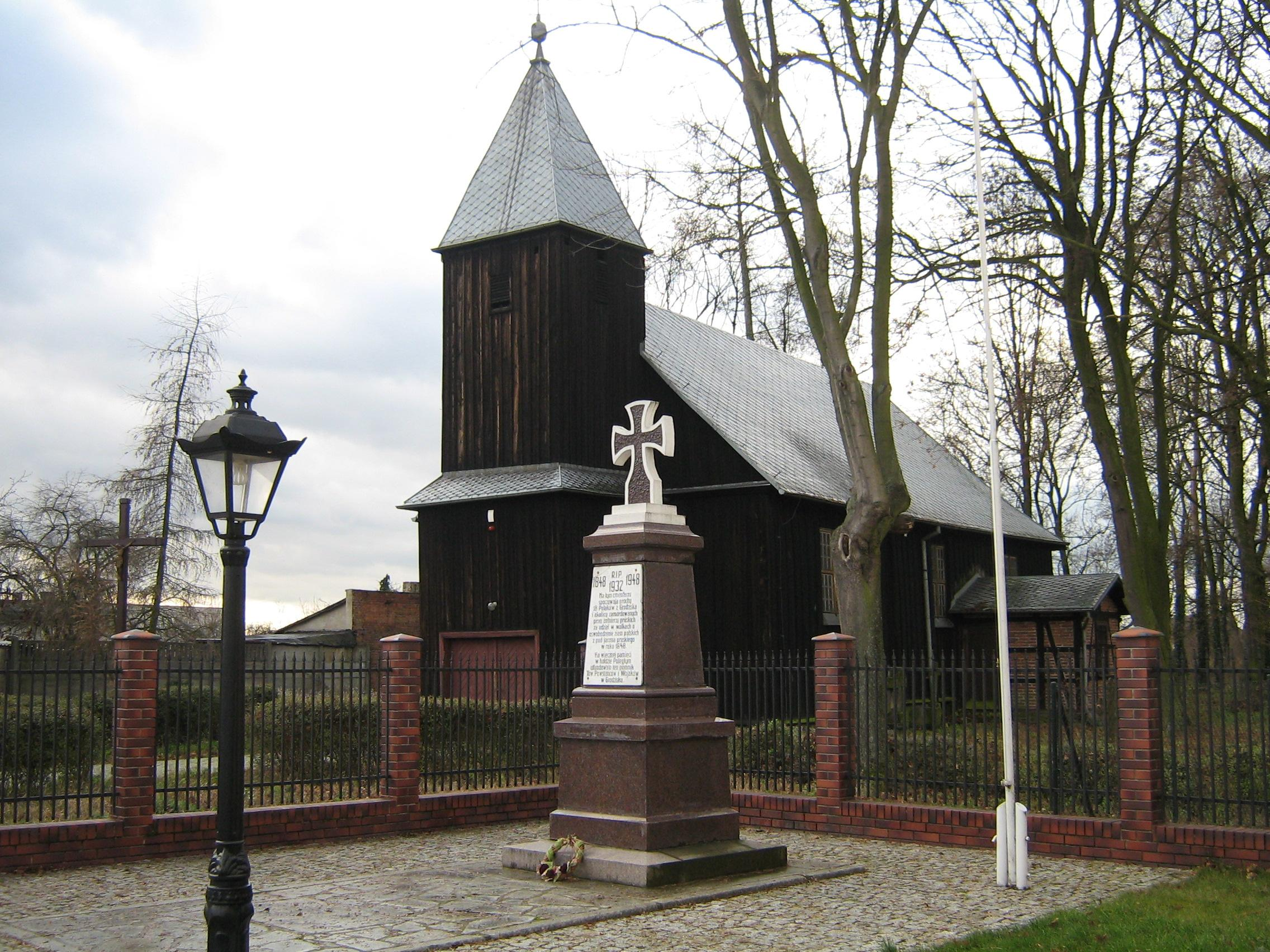 Church of Holy Spirit in Grodzisk Wielkopolski (Poland)